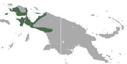 Brown Dorcopsis (Dorcopsis muelleri) range